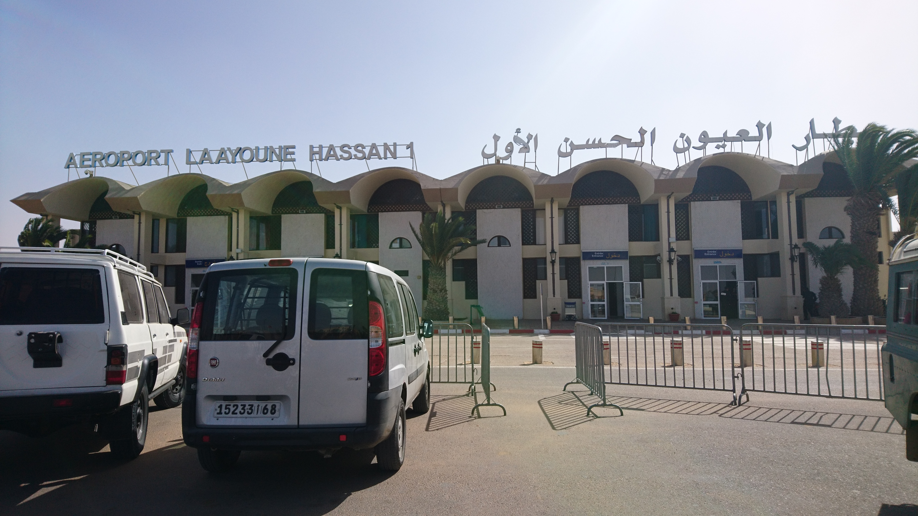 Hassan 1 Airport Entrance